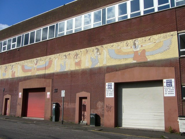 Factory frieze, Powderhall, Edinburgh. Mock-Egyptian art motifs on a wall of the former Duncan's chocolate factory in Beaverhall Road.